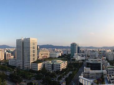 Daejeon, Korea